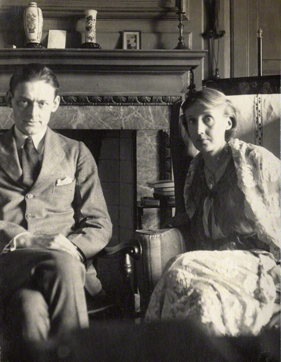 Vintage snapshot of T. S. Eliot and Virginia Woolf